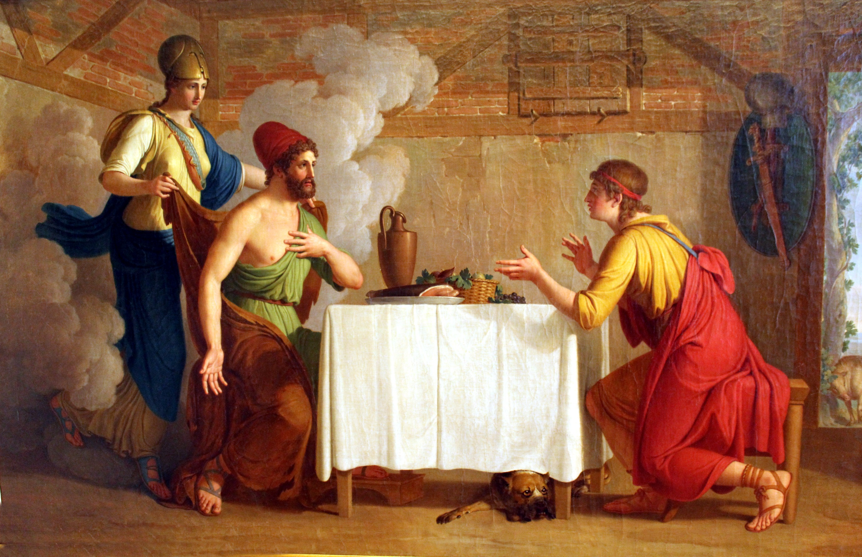 Weimar, Schlossmuseum, Johann August Nahl the Younger, Telemachus recognizes his father Odysseus in the house of the swineherd Eumaeus